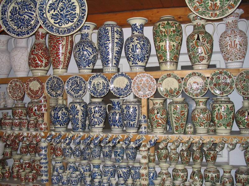 Pottery shop in Corund, Transylvania.